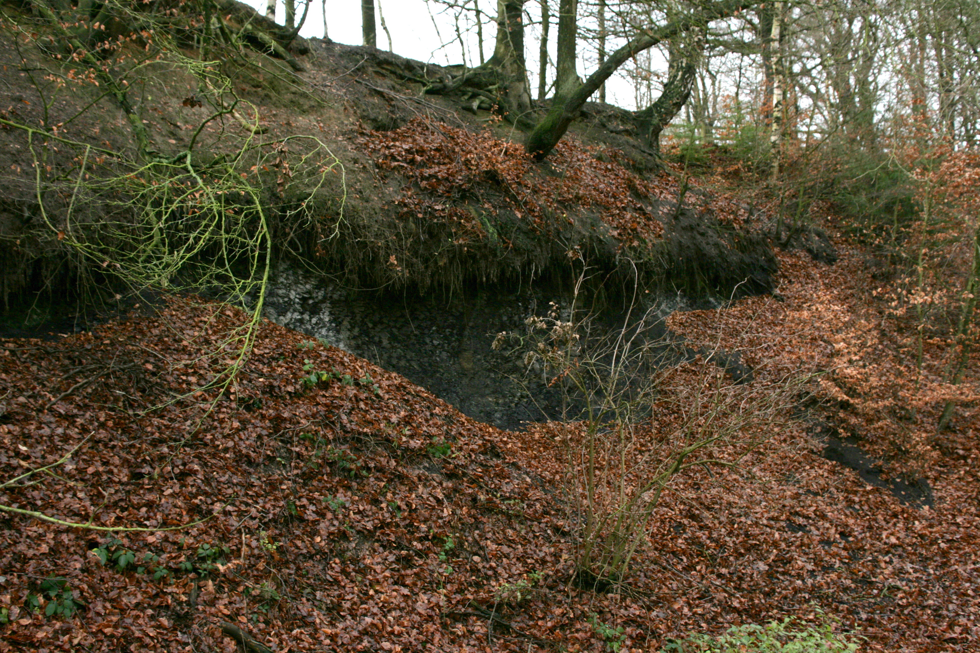 So called black chalk, a coalificated oil shale in Belm-Vehrte, Germany